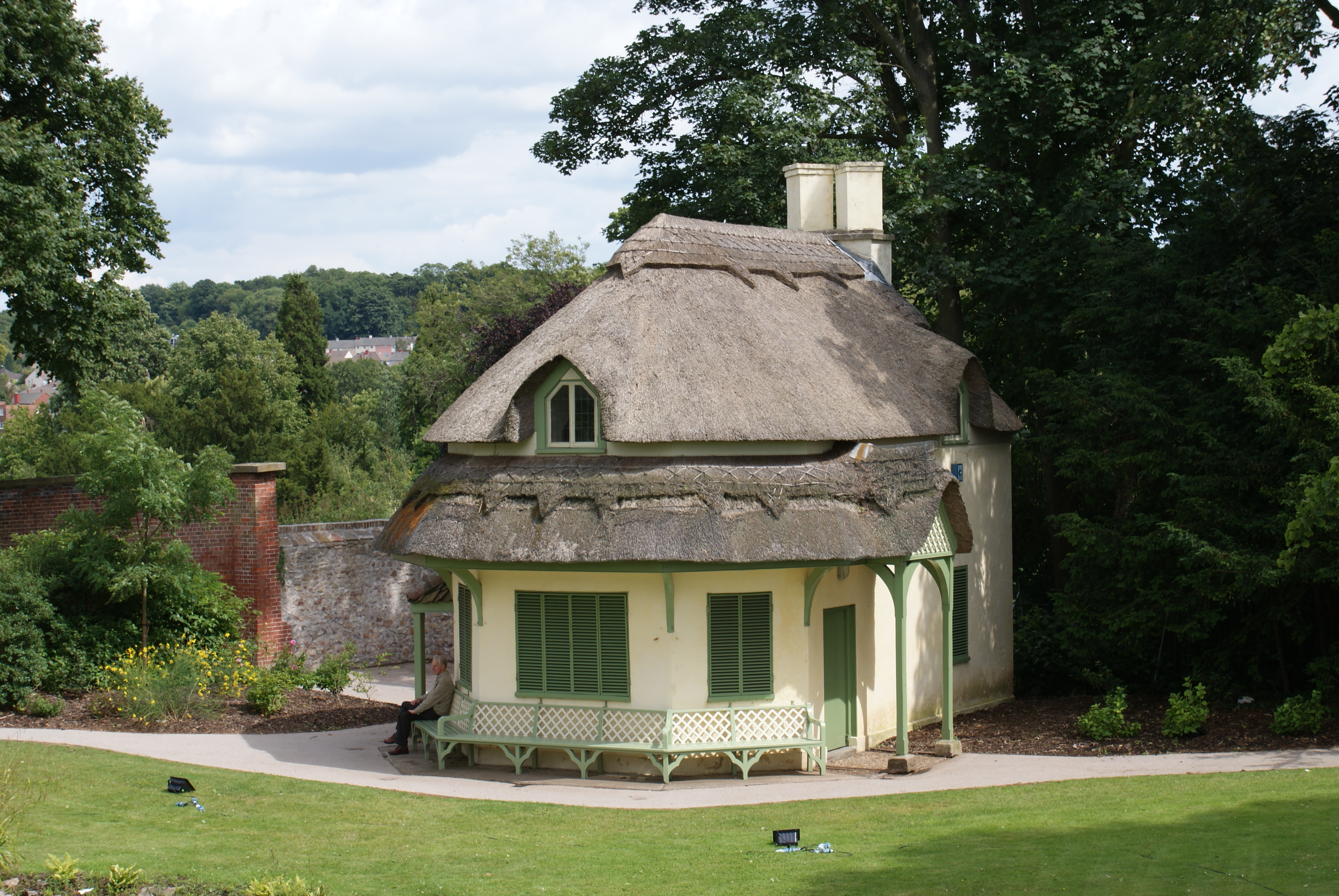 The dairy house at Blaise Castle Estate, in mid-July en:2008.